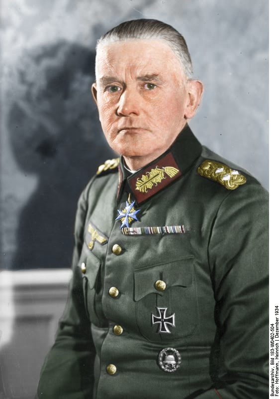 Colourised picture of Von Blomberg 1934